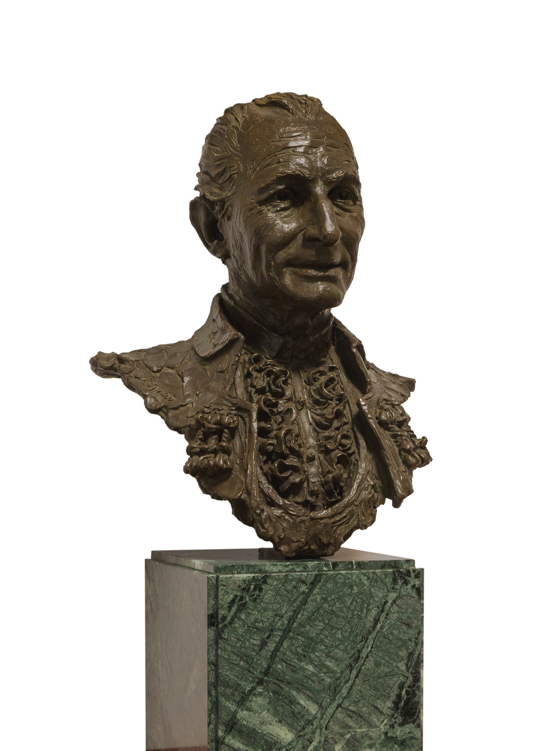 Bronze bust of Angel Peralta, a famous sevillan rejoneador, by Luis Sanguino, museum of the Real Maestranza, Seville, Spain.